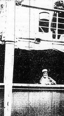 Anne Shymer photographed by her family aboard the Lusitania. May 1, 1915